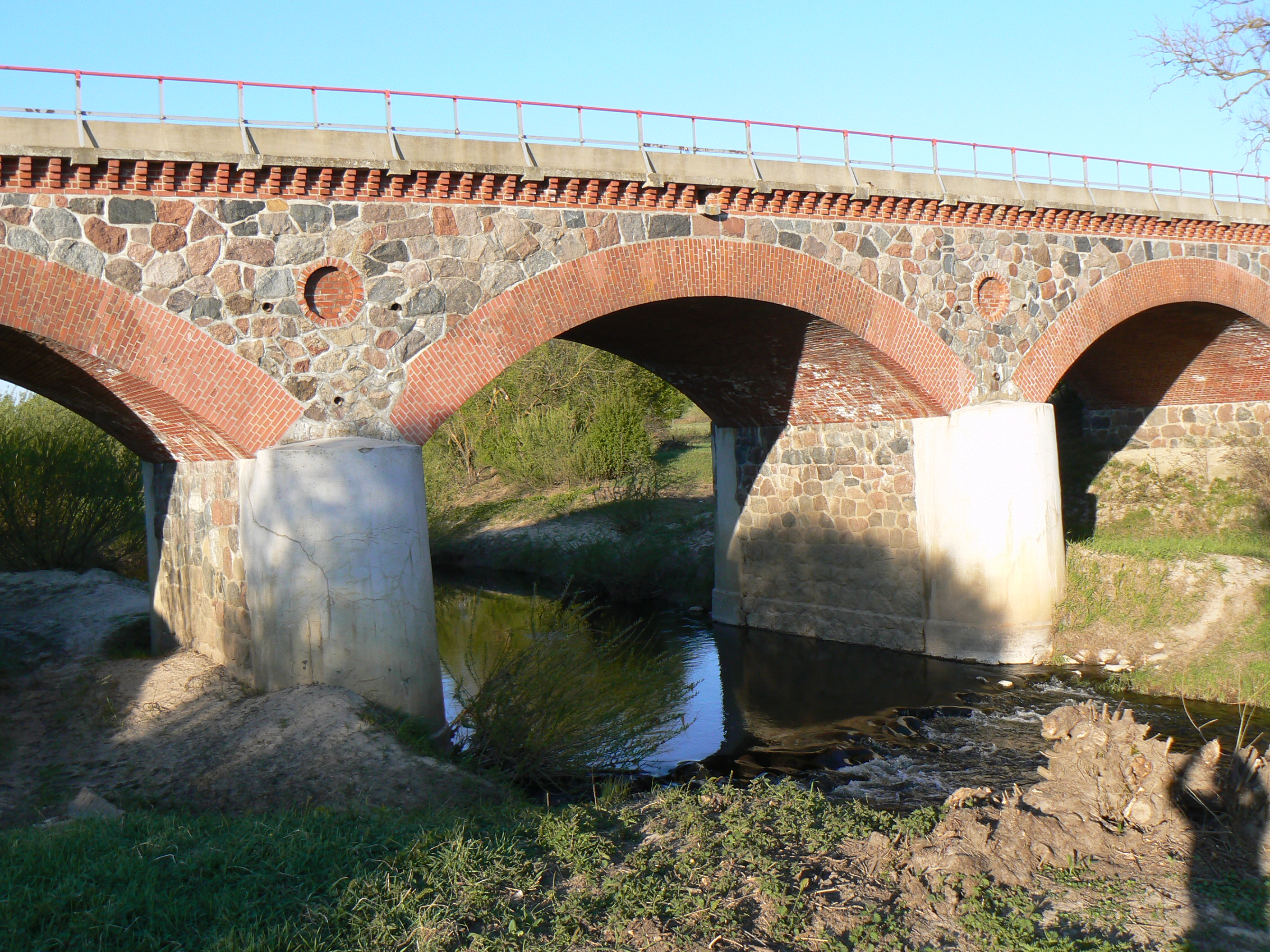 Old Bridge, Danė, Kretingalė